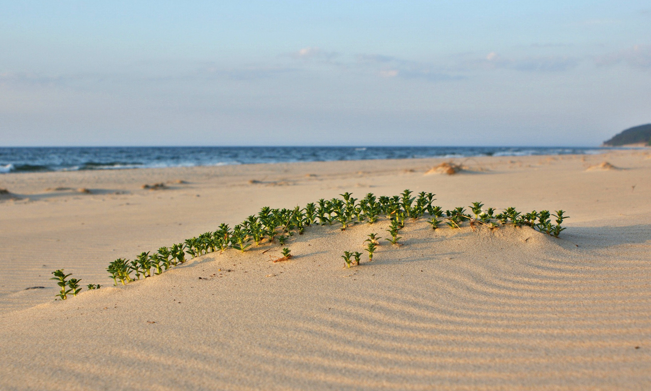 Honckenya peploides in Wolin National Park (NW Poland)